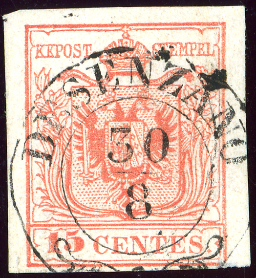 Stamp of Lombardy-Venetia, 15 centesimi issue 1854, cancelled at DESENZANO (Lombardy Region). Michel 3Y.